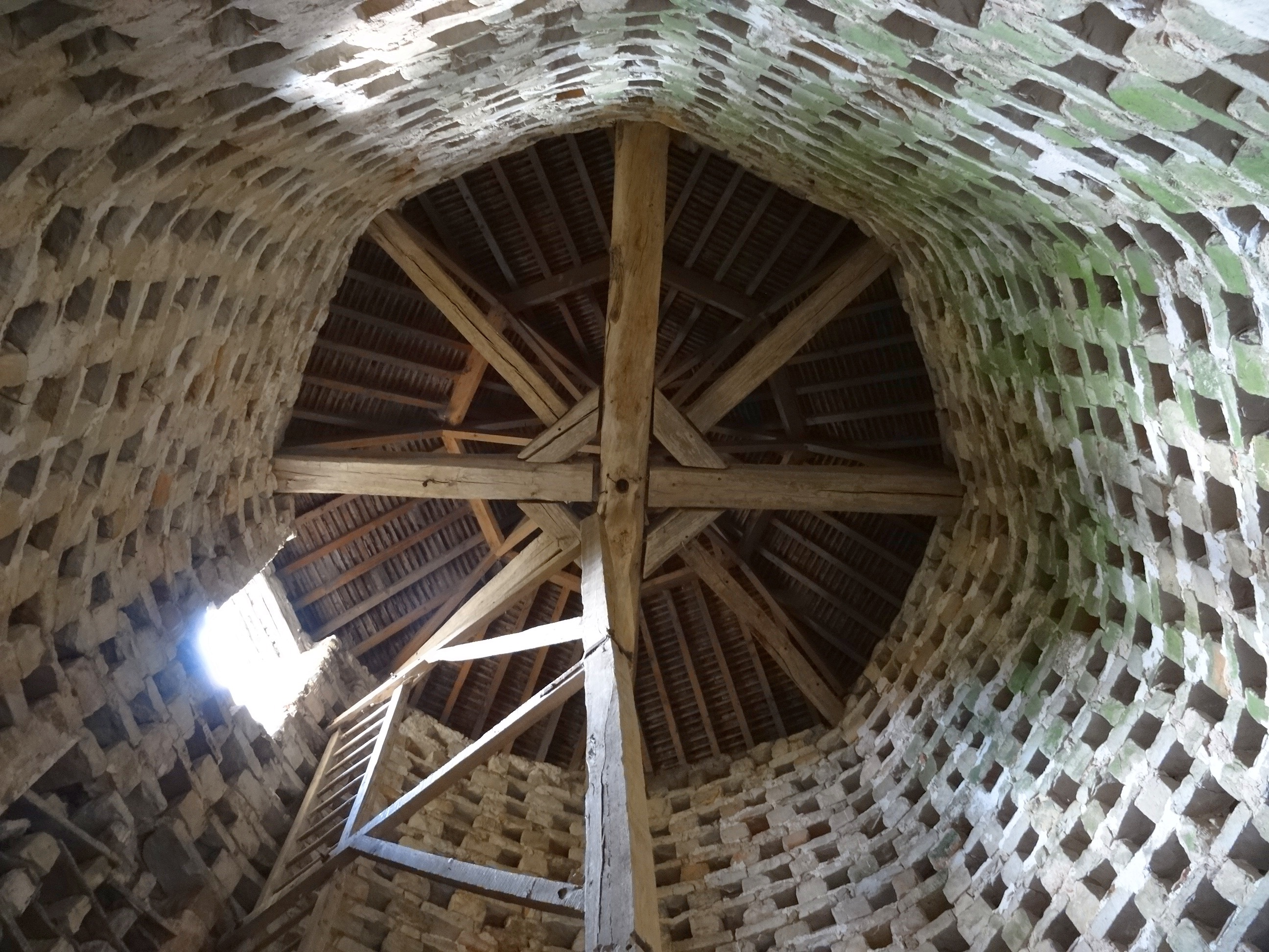 Nesting boxes in the tower (dovecote). (Larchant, Seine-et-Marne, Île-de-France).